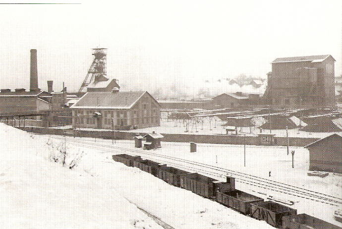 Colliery Hlavní Jáma (Hauptschacht) in Orlová (Czech Republic) in 1927.